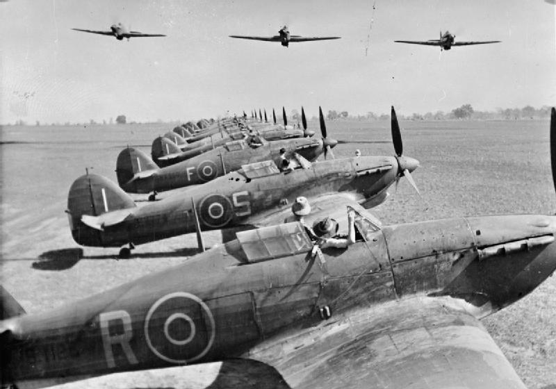 Royal Air Force Operations in the Far East, 1941-1945. A section of Hawker Hurricanes fly over the Hurricane Mark IIBs and IICs of No. 67 Squadron RAF, lined up at Chittagong, India.